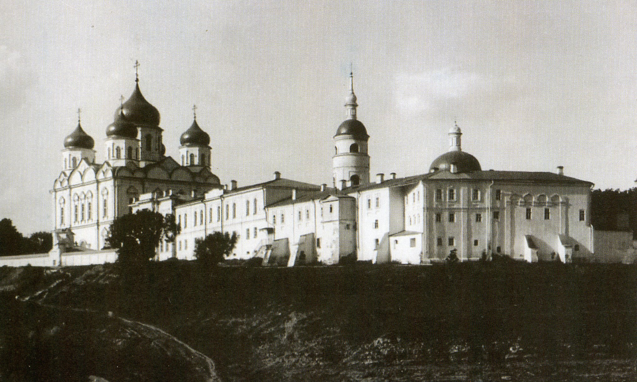 Troitsky and Uspensky cathedrals of Oryol Uspensky man's monastery